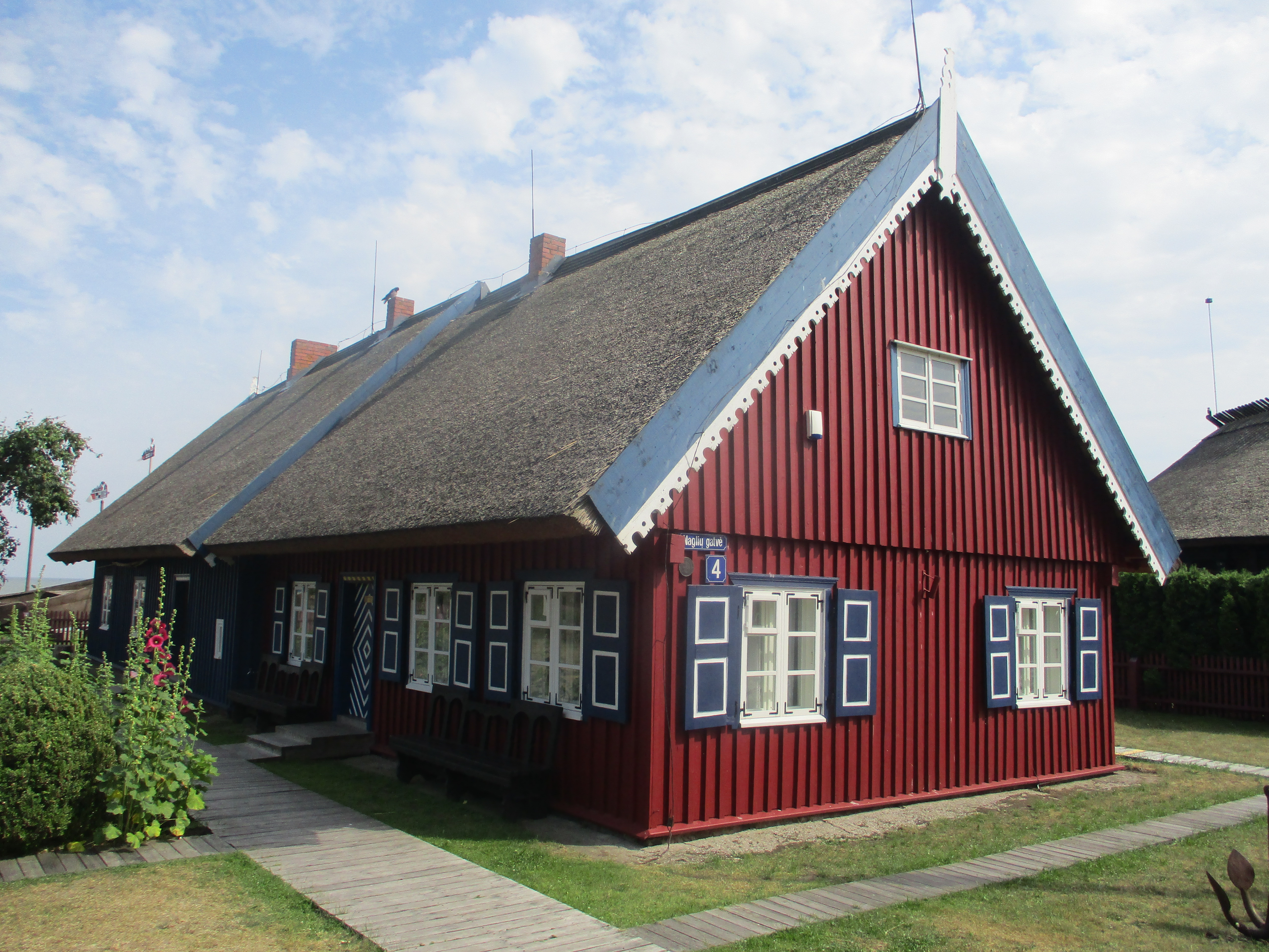 Dwelling house of the Nida Fisherman's Ethnographic Homestead.